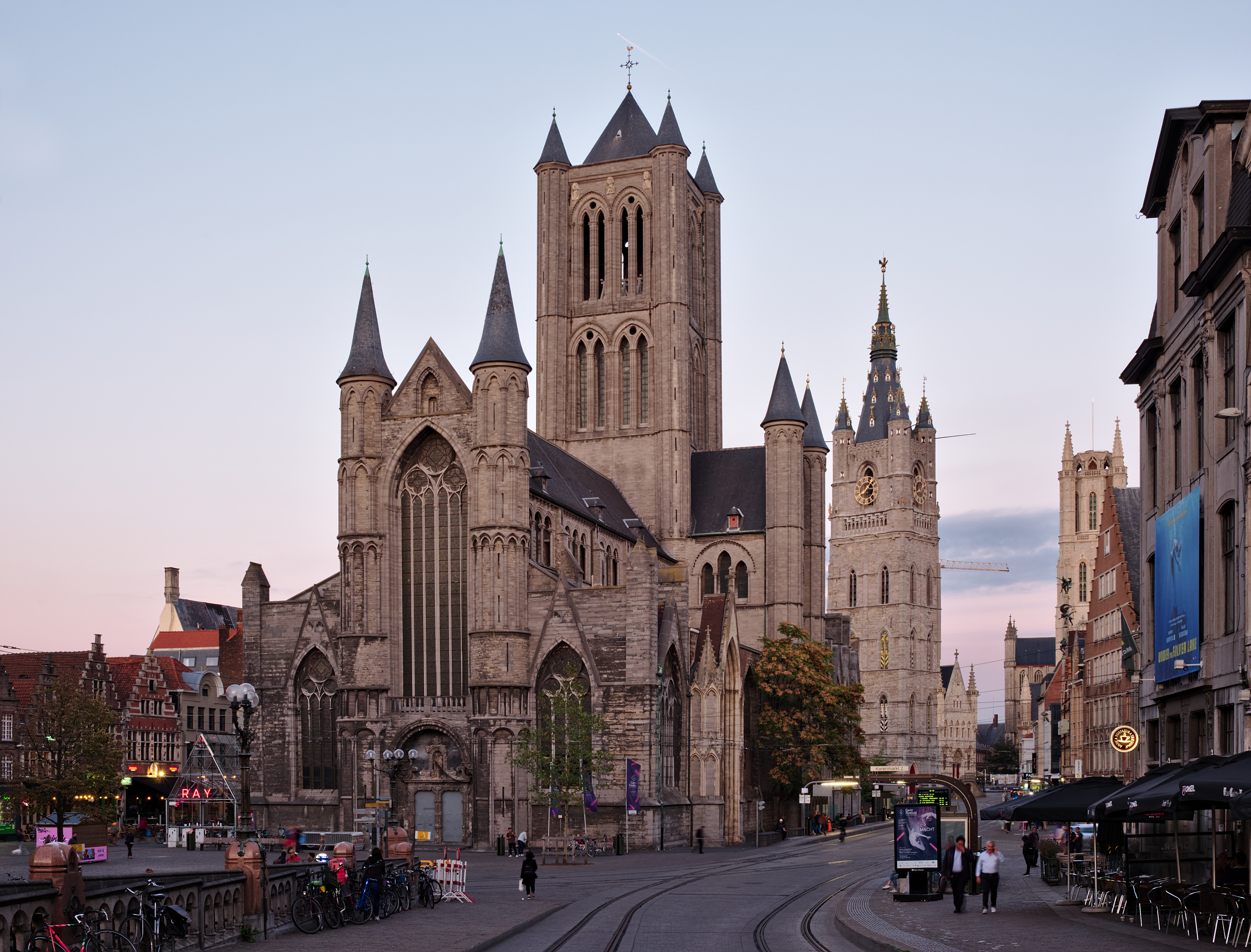 Sint-Niklaaskerk and the belfry of Ghent seen from Sint-Michiel bridge during civil twilight This photo of immovable heritage has been taken in the Flemish Region This place is a UNESCO World Heritage Site, listed as Belfries of Belgium and France.